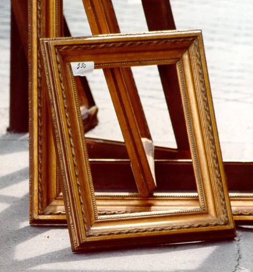 Wooden picture frames